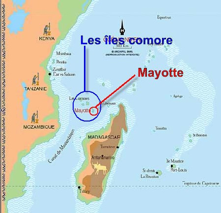 carte